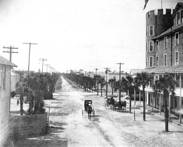 View down Ocean Blvd. (Seabreeze Blvd.), looking west from the ocean: Seabreeze, Florida. On the right (starting in the foreground): The Clarendon Inn; Ernest Mills' building (where he ran a barber shop); Mrs. Emma Trumbower's home; Mrs. Sidonia Jones Guthrie's home; the Shell House (later the Geneva Hotel); and Wilman's Opera House. On the left (starting in the foreground): Back of the Post Pavilion; home of Dick Lyle (who managed the Post Pavilion); some doors down, the Starkey home (later the site of Atlantic Bank); and the Colonnades Hotel windmill.